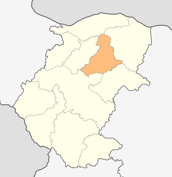 Map of Yakimovo municipality, Montana Province